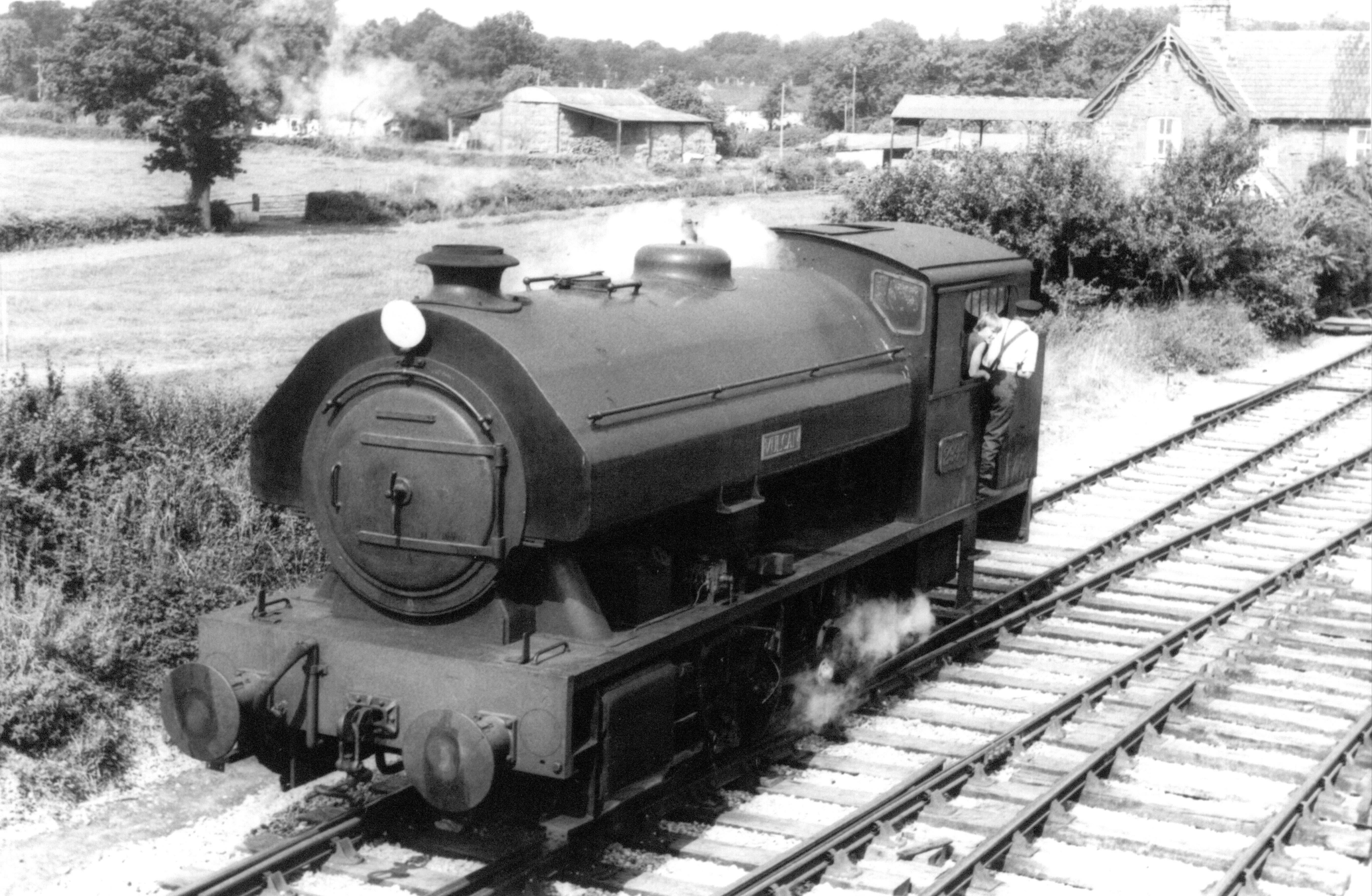 Scan from print, negative long lost!